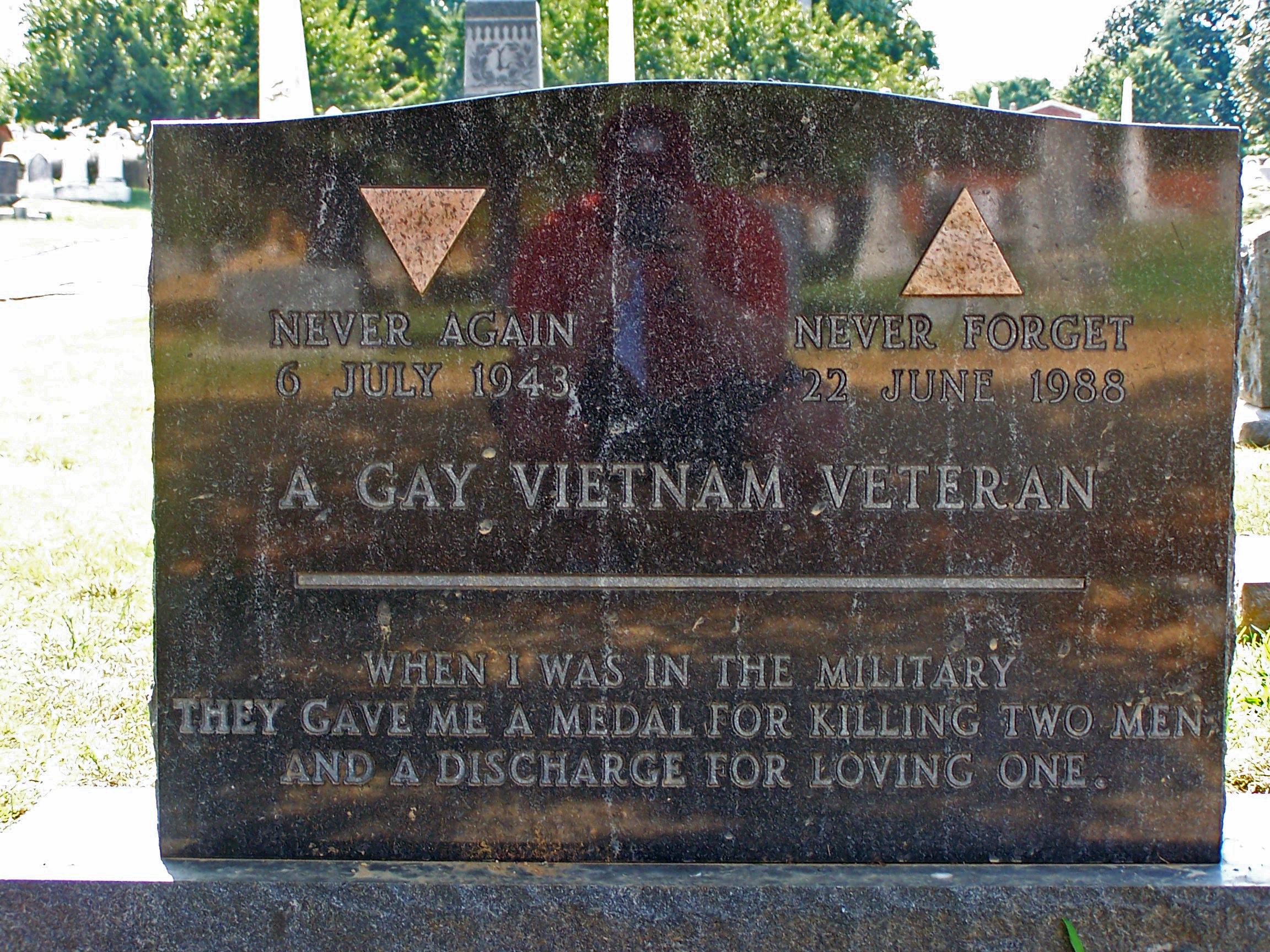 I shot this photo personally today.